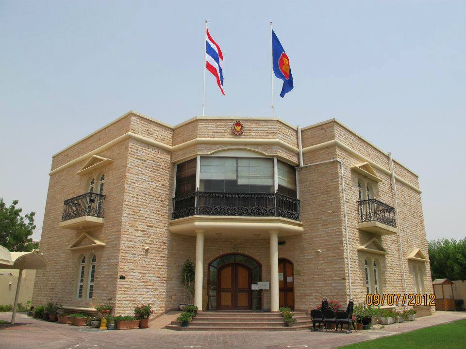 Royal Thai Consulate General - Dubai